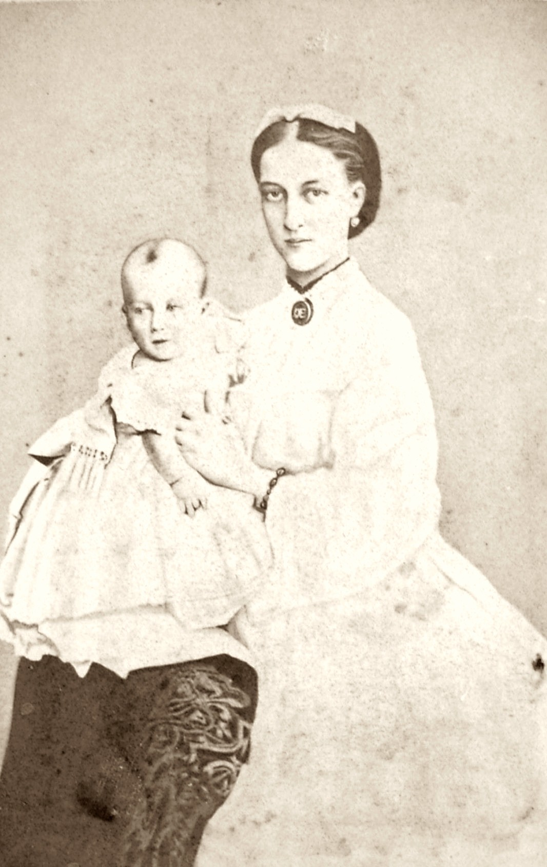 Alexandra, Princess of Denmark with Prince Albert Victor